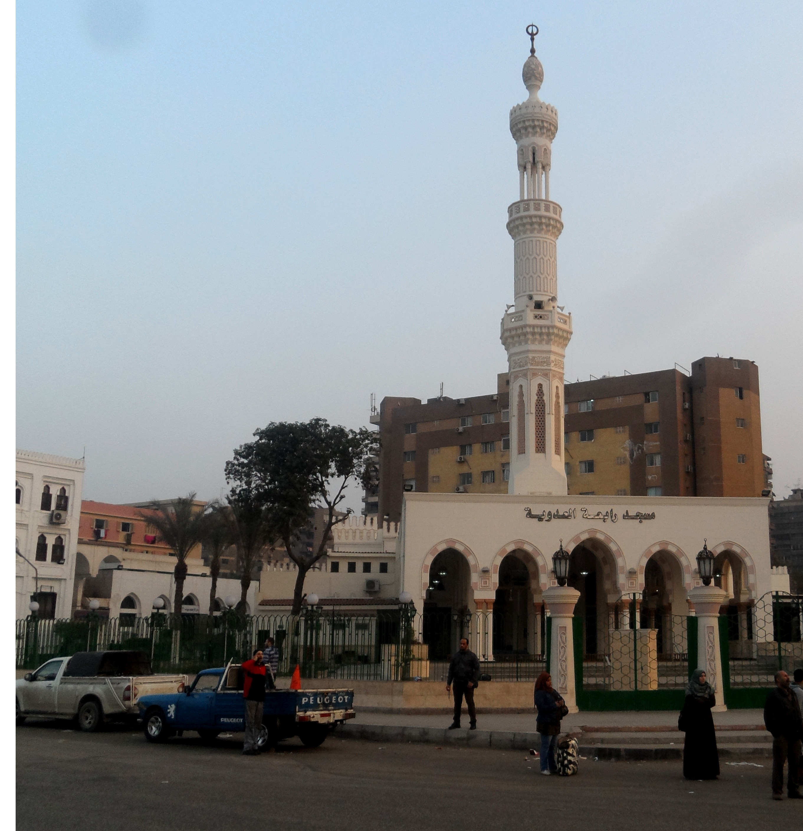 Rabaa Al Adawya mosque